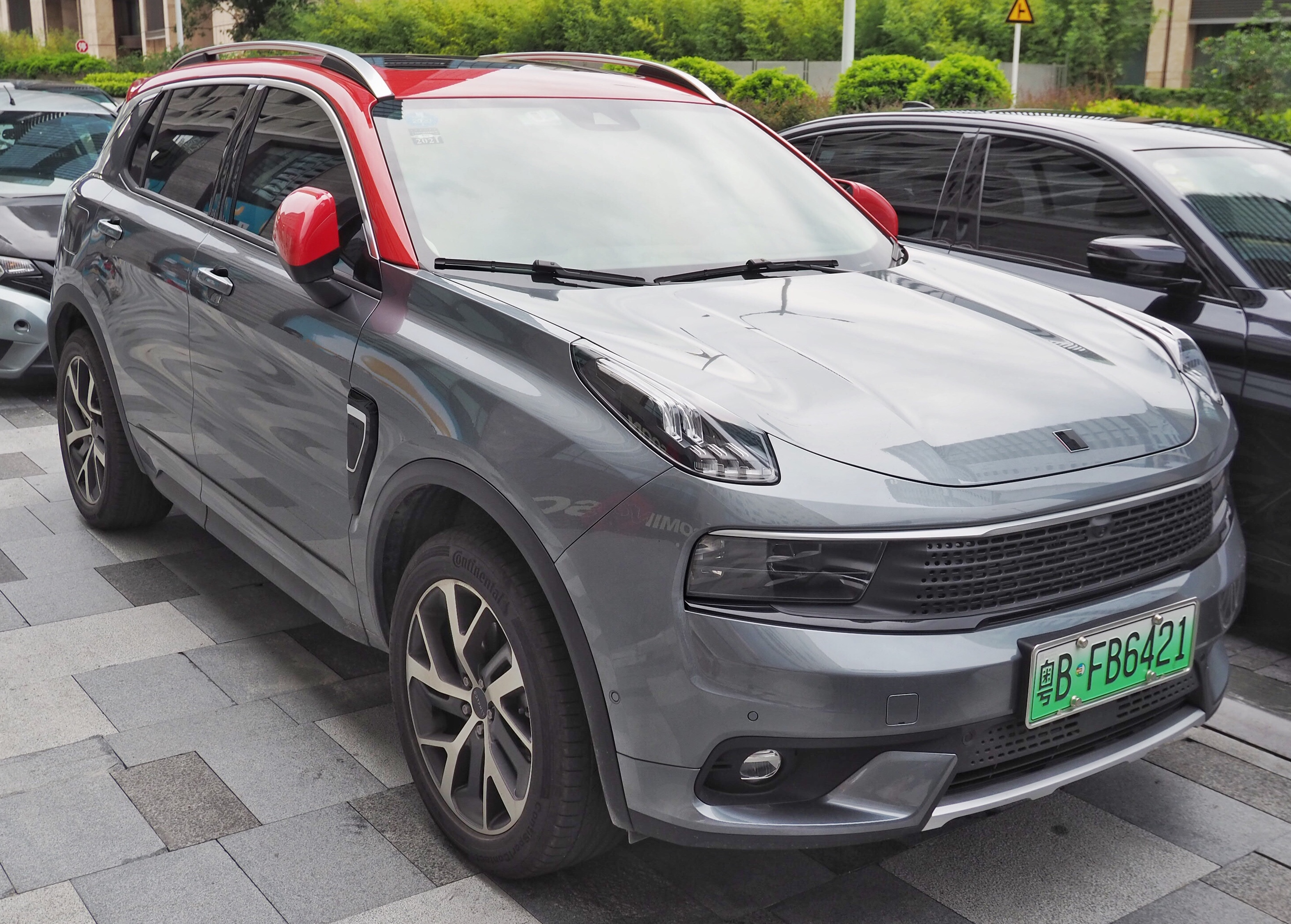 A 2019 Lynk & Co 01 PHEV taken in Shenzhen, Guangdong province, China. 中文（中国大陆）: 一辆2019年的领克01 PHEV，摄于中国广东省深圳市。